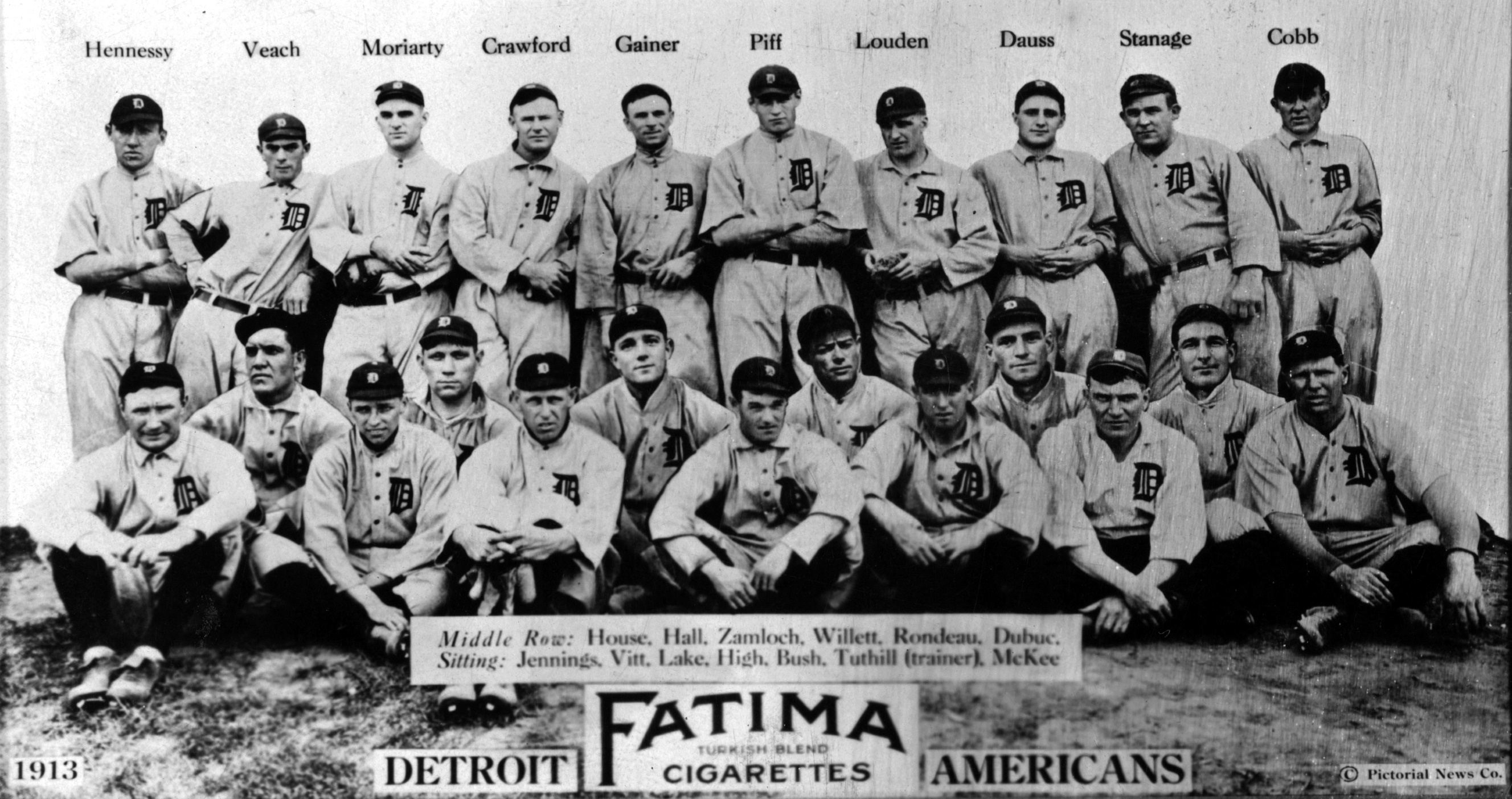 1913 Detroit Tigers, baseball card portrait